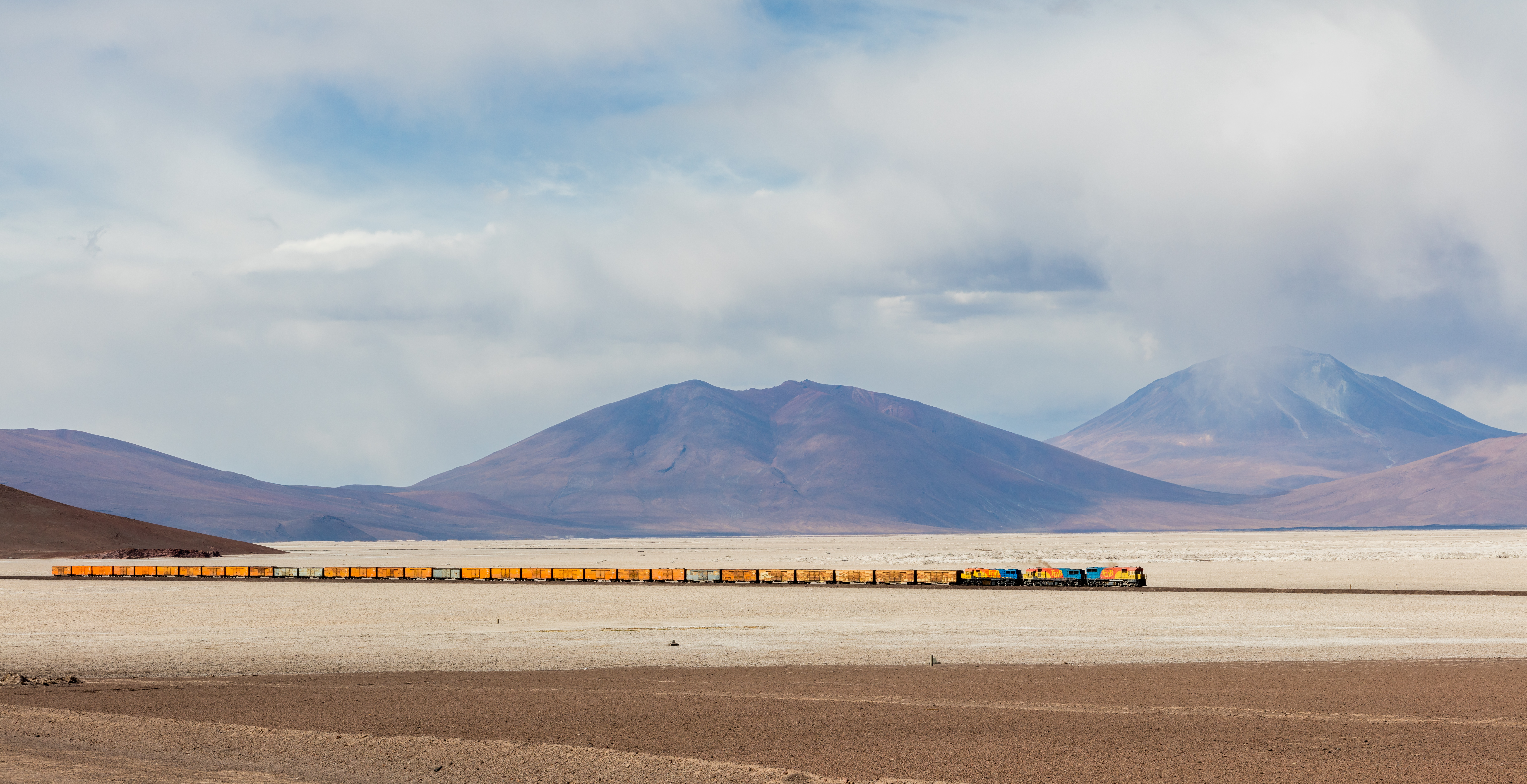 FCAB railway crossing the 35 kilometers (22 mi) long route over the west side of the Ascotán salt flat, southwestern Bolivia. The train covers the route Antofagasta - Calama - Ollagüe - Uyuni - La Paz, from 0 metres over the sea level in the coastal city of Antofagasta to over 4,500 metres (14,800 ft) in the area where the picture was taken (exactly in Collahuasi) and has a total length of 1,537 km (955 mi). The locomotives have engines EMD GT22CU-3 2406, Clyde GL26C-2 2009 and Clyde GL26C-2 2004 whereas the Ascotán salt flat has a surface of 246 square kilometers (95 sq mi).